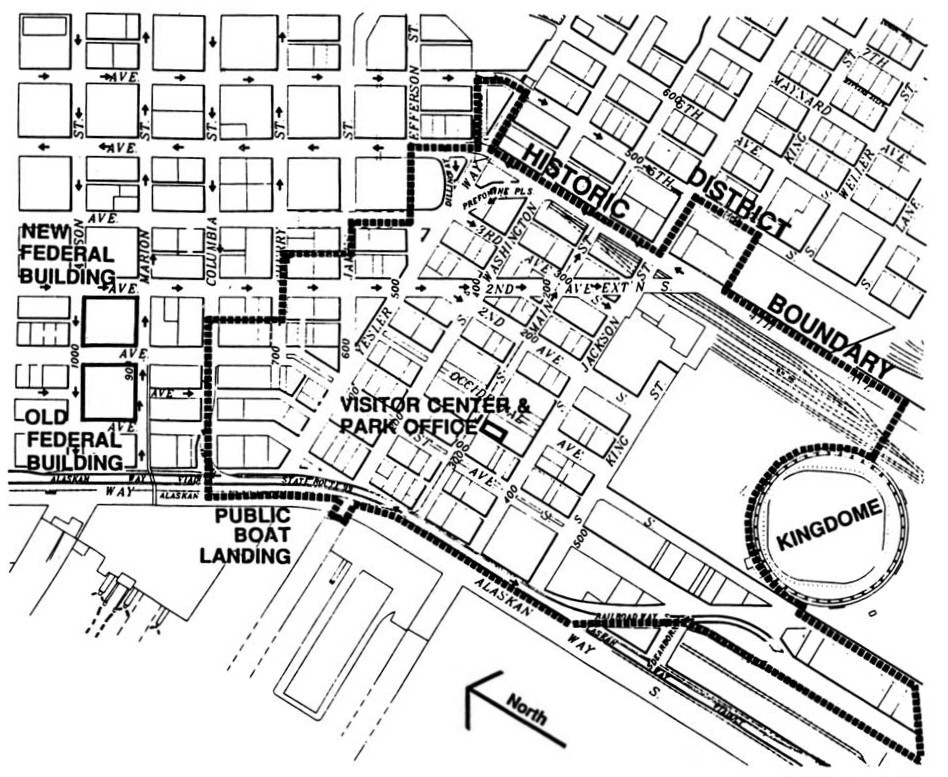 Map of Pioneer Square-Skid Road Historic District, Seattle, Washington, USA. The Historic District is listed on the National Register of Historic Places (NRHP). It has been successively enlarged, and hence has multiple NRHP IDs: #70000086, #78000341, and #88000739. The location shown for the Visitor Center & Park Office is the Union Trust Annex; in 2005, the Center & Office relocated to the Cadillac Hotel Building.